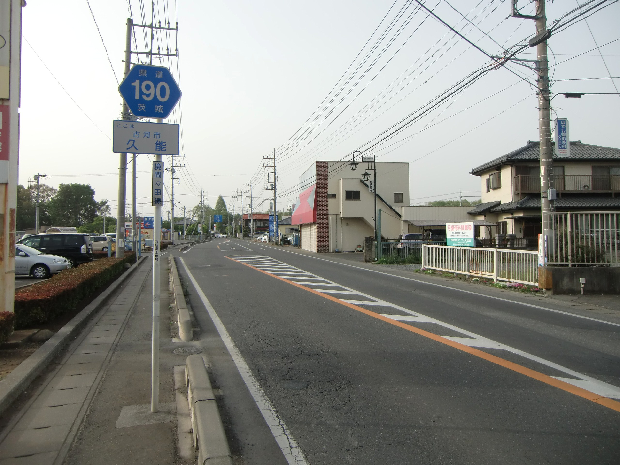 Ibaraki prefectural road 190(Sakai-Mamada line) in Kunou, Koga-city, Ibaraki-pref, Japan.